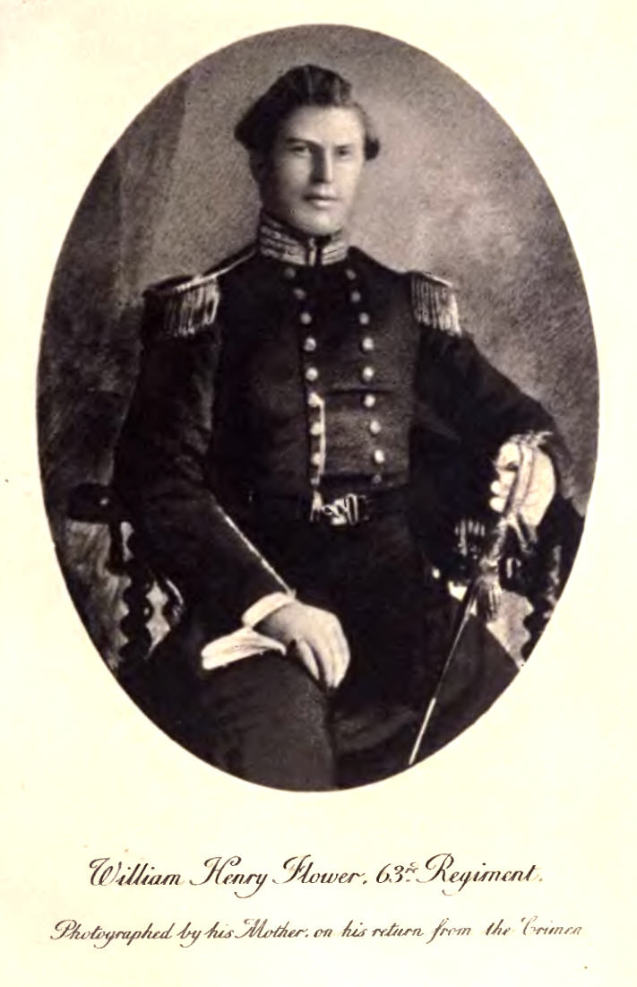 Sir William Flower, KCB